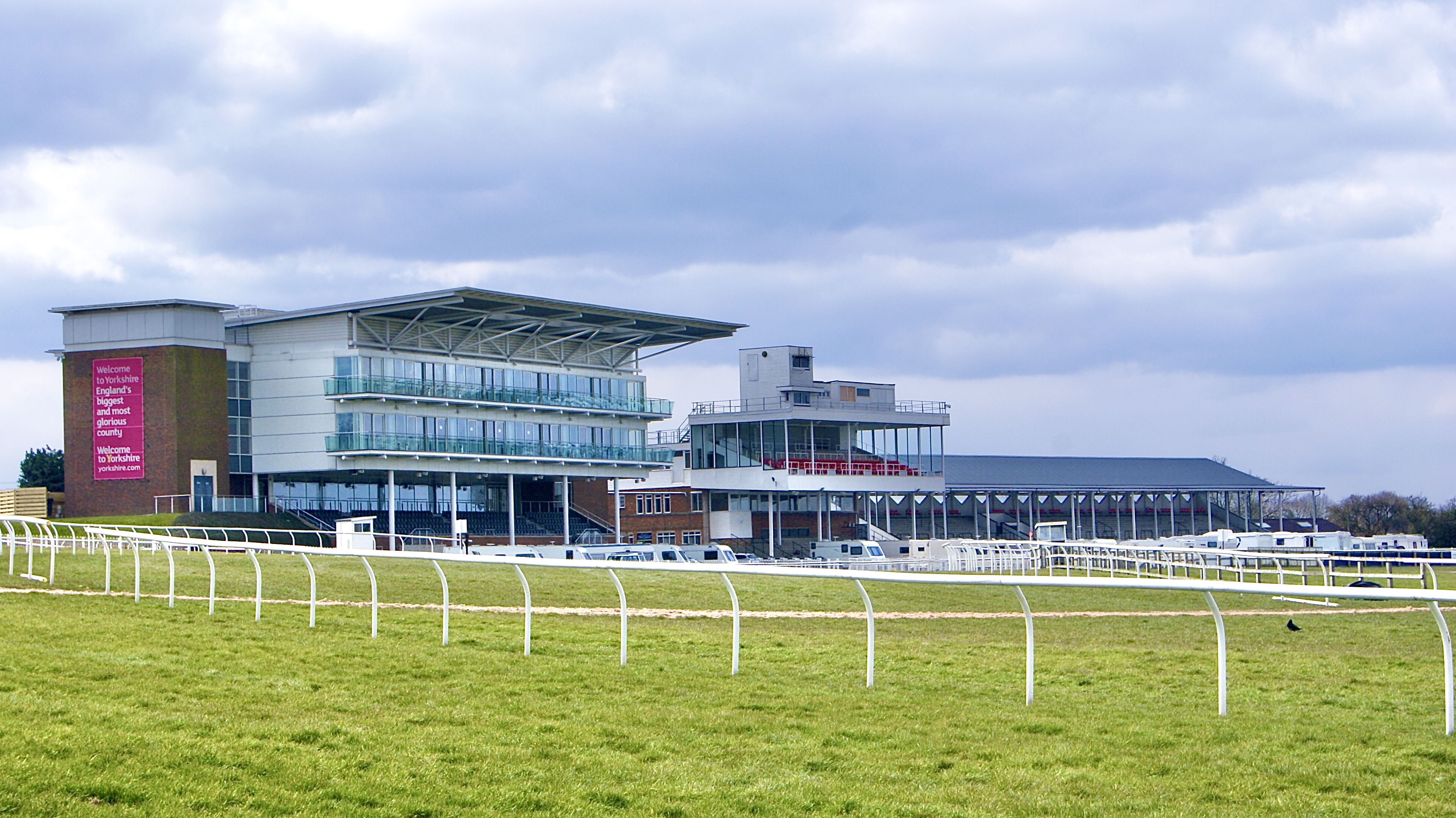 Wetherby Racecourse, Wetherby, West Yorkshire. Taken on the morning of Sunday the 31st of March 2013.